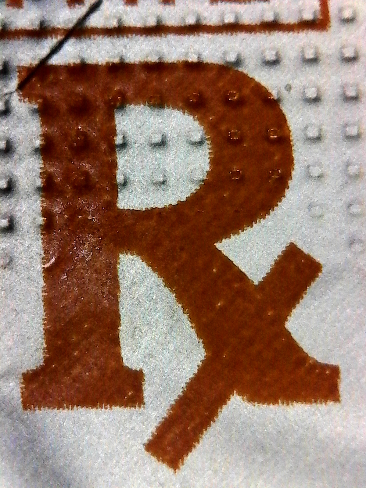 Close up image of an ℞ symbol printed on a blister pack.